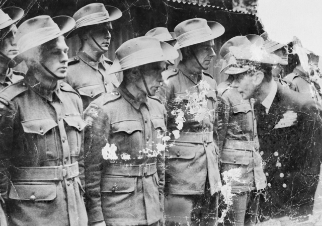 George VI meets Australian VC winners in the United Kingdom.